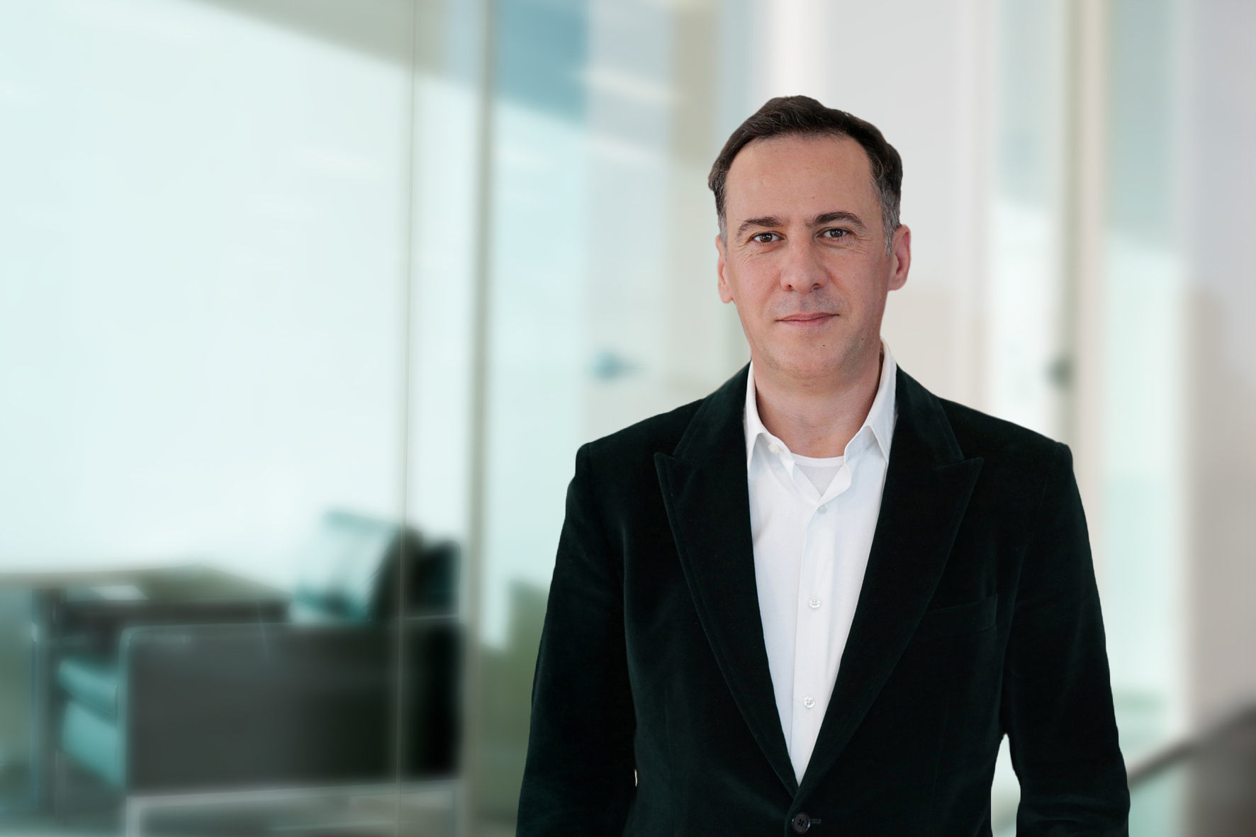 Michele Sciurba